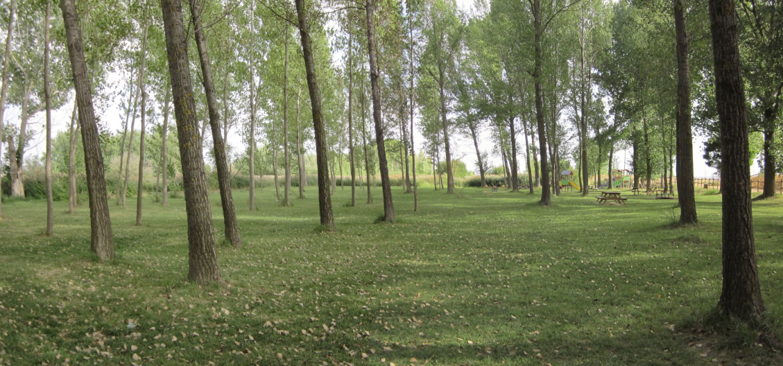 Ojos de Monreal del Campo